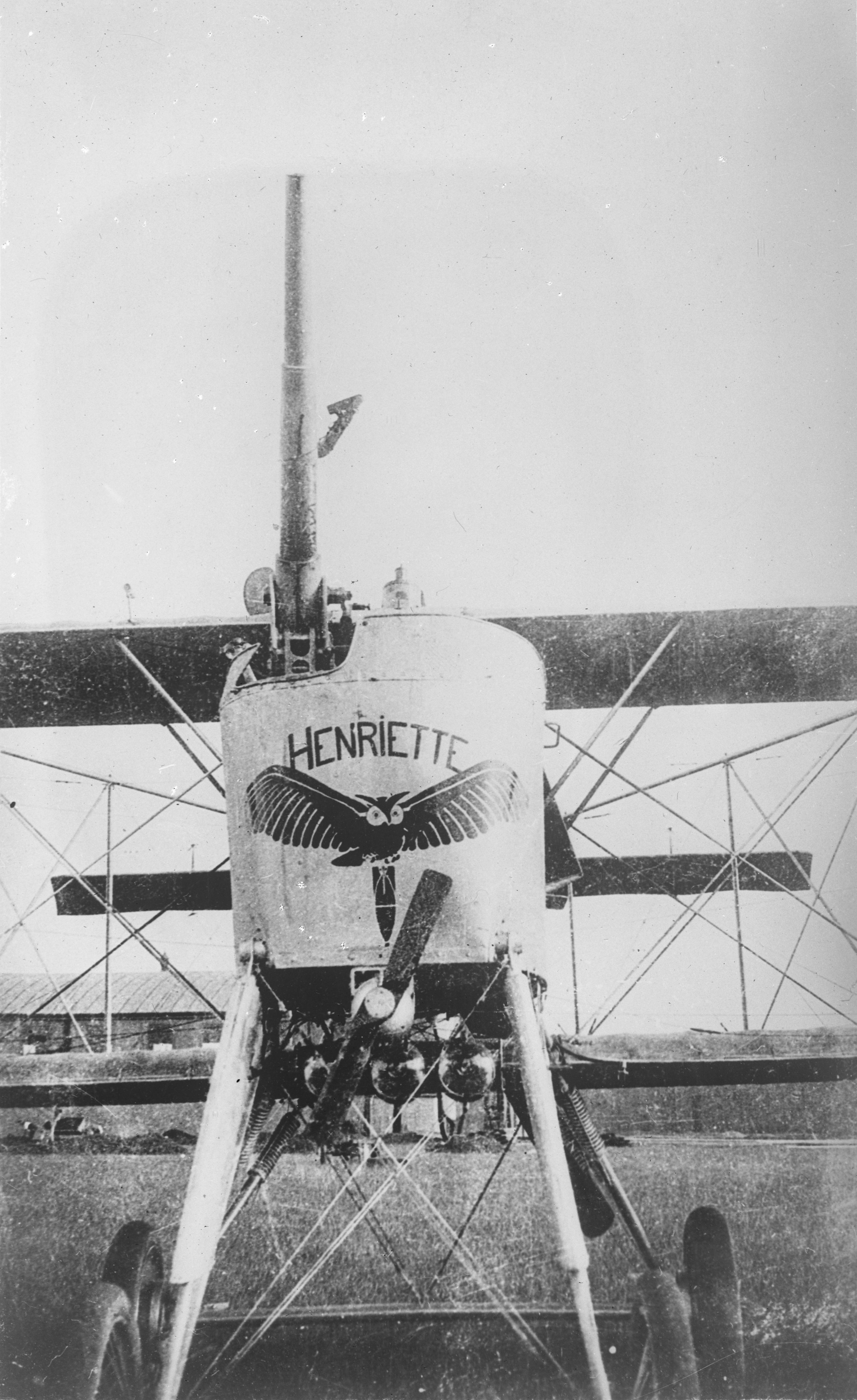 Voisin VIII "Henriette". Training slide for pilots and mechanics. From the Robert McKenzie fonds, PR1991.0305/16.